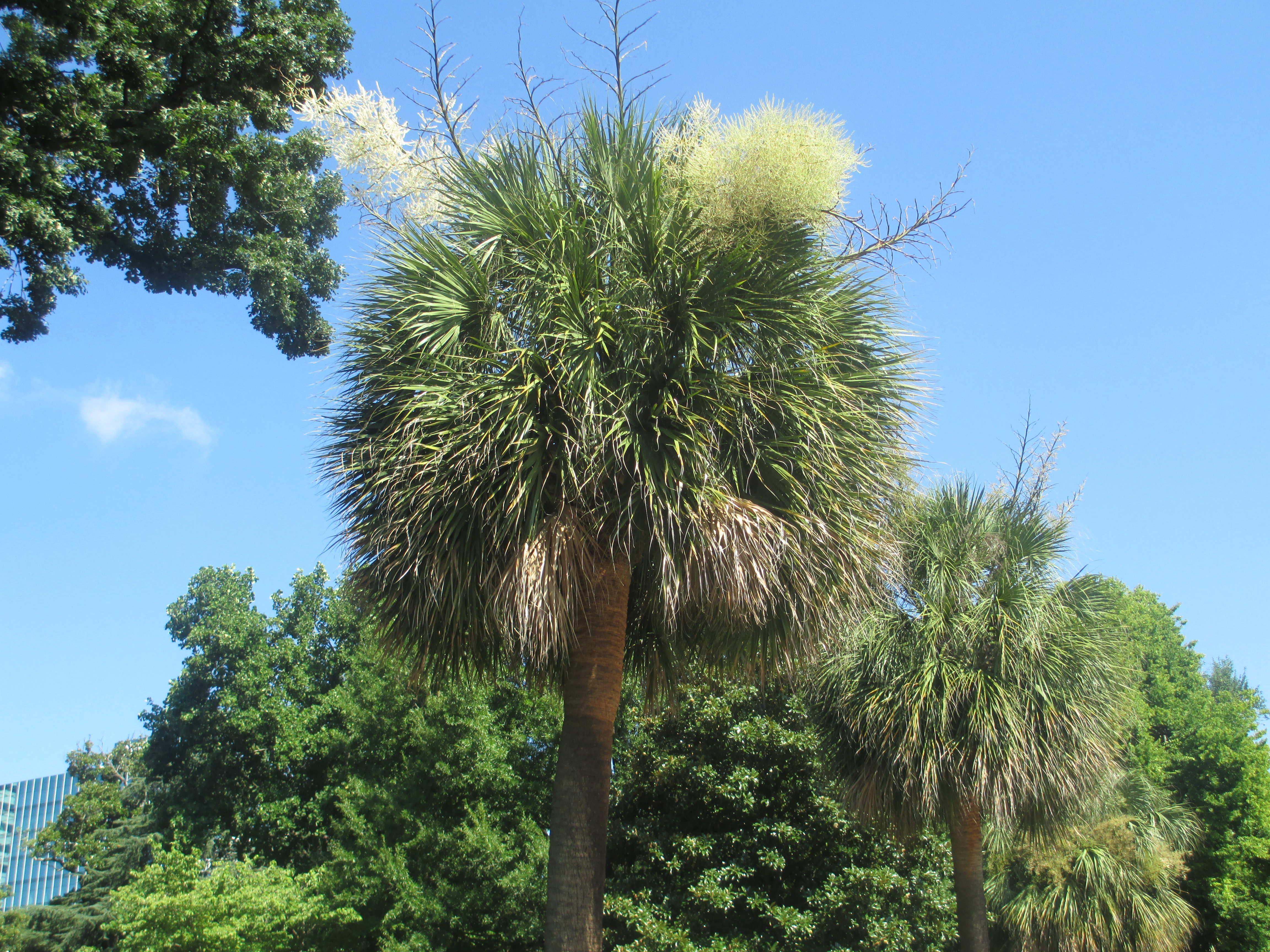 I took photo of palmetto tree in Columbia, SC, with Canon camera.